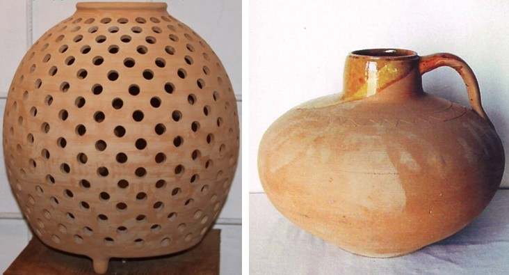 Typical pottery of Navarrete (La Rioja, Spain): at left, Caracolera, Jesús Fajardo work. At riight, girlfriend pitcher or jug panzón, work of Armando Torrado. Parts of the Museum of ceramics of Chinchilla of Montearagón (Albacete).